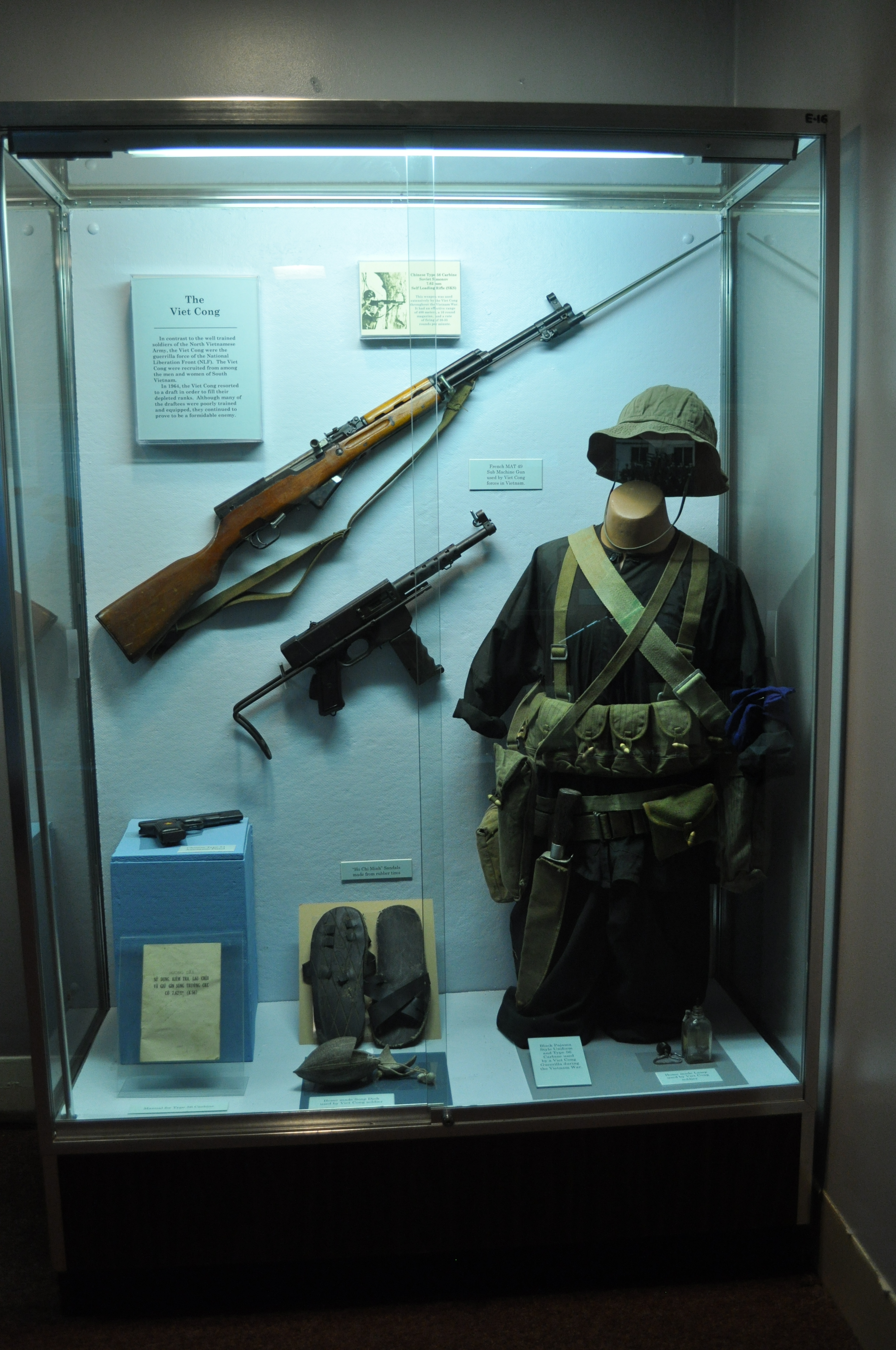 Exhibit: the Vietcong, Fort Lewis Military Museum, Fort Lewis, Washington, USA.